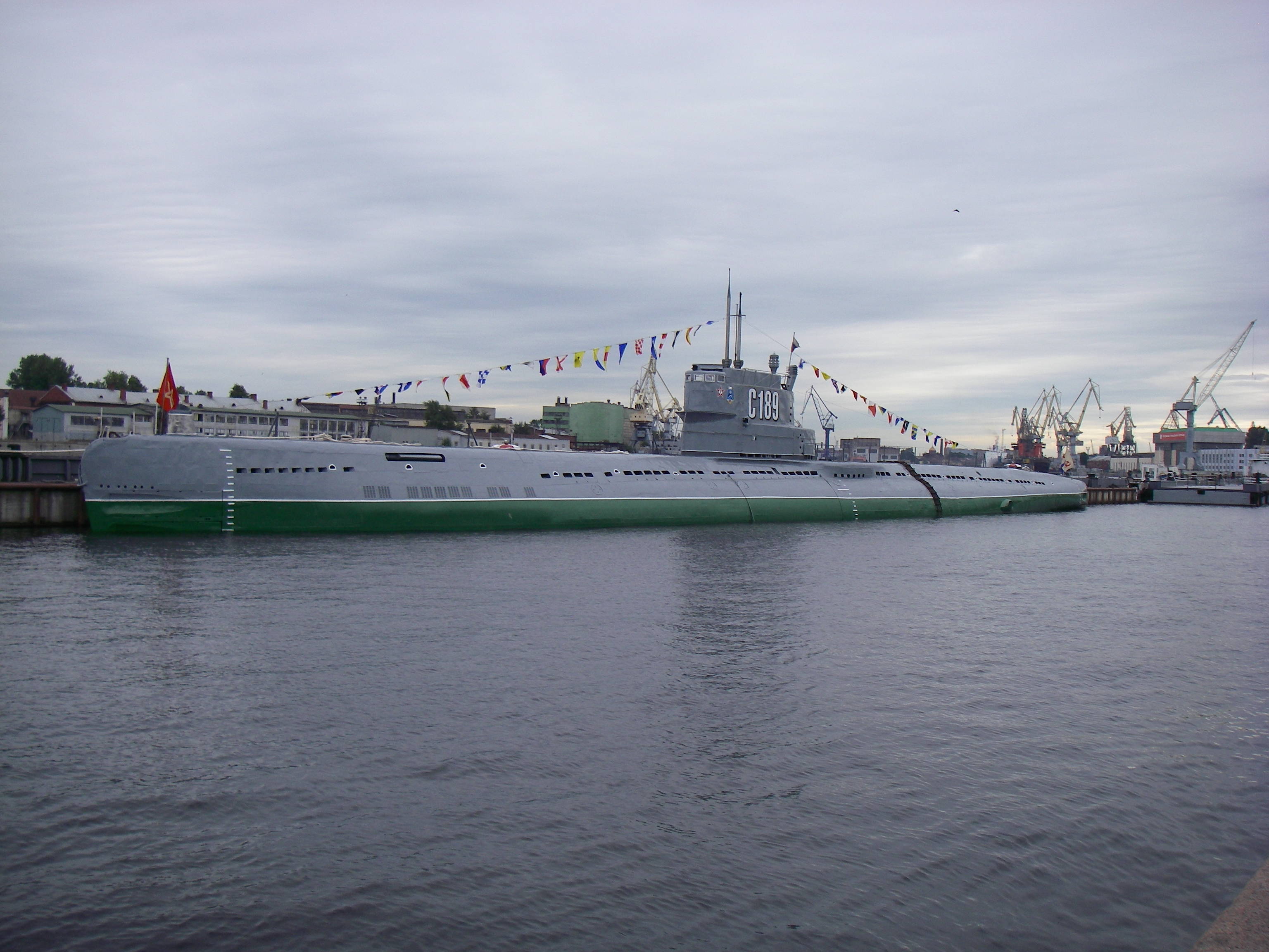 Submarine S-189 (project 613) currently being turned into museum